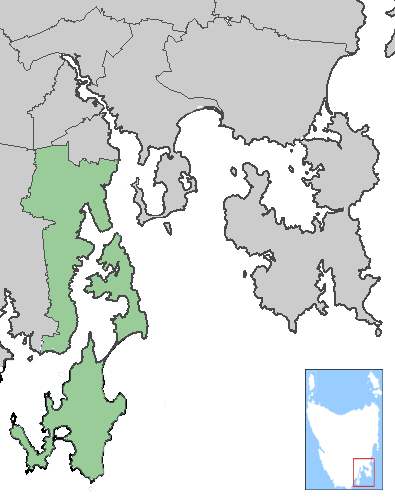 Conseil de Kingborough, Tasmanie, Australie